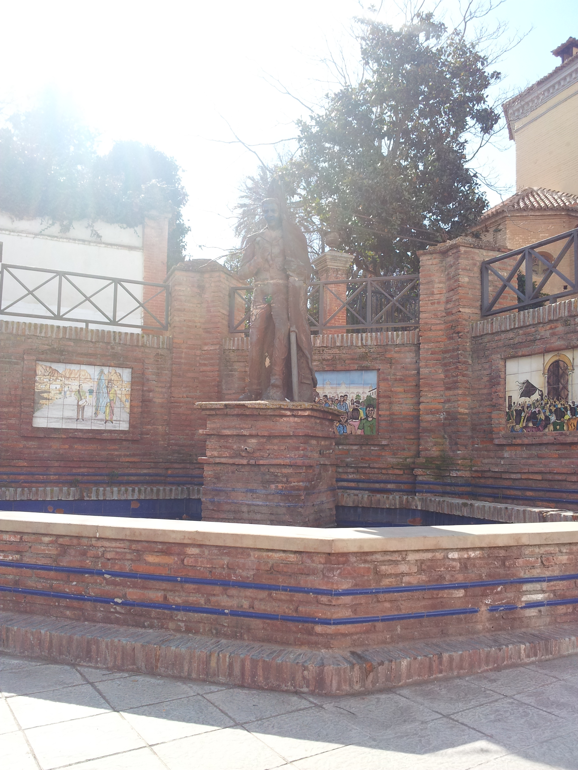 Estatua conmemorativa del Cascamorras en la Calle San Miguel de Guadix